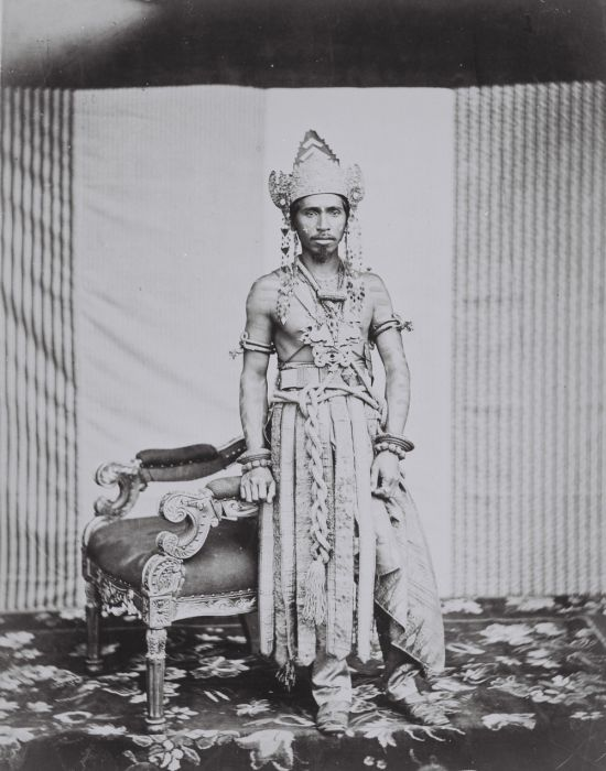 Portrait of the crownprince of the Sultanat Kutai, Kalimantan.